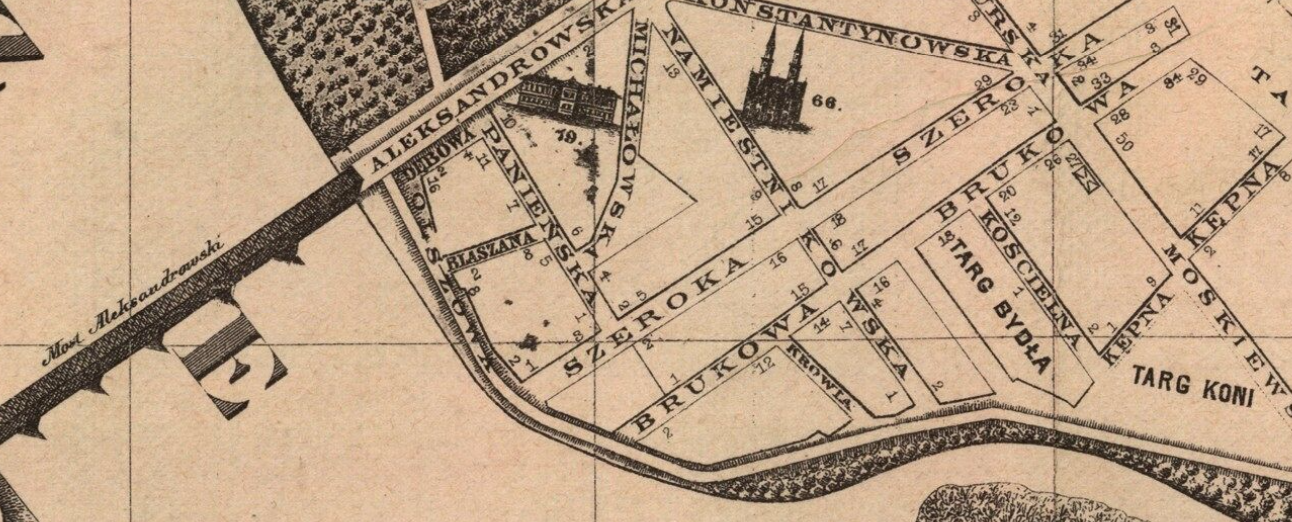 Olszowa Street on the plan of the town of Warsaw, 1896